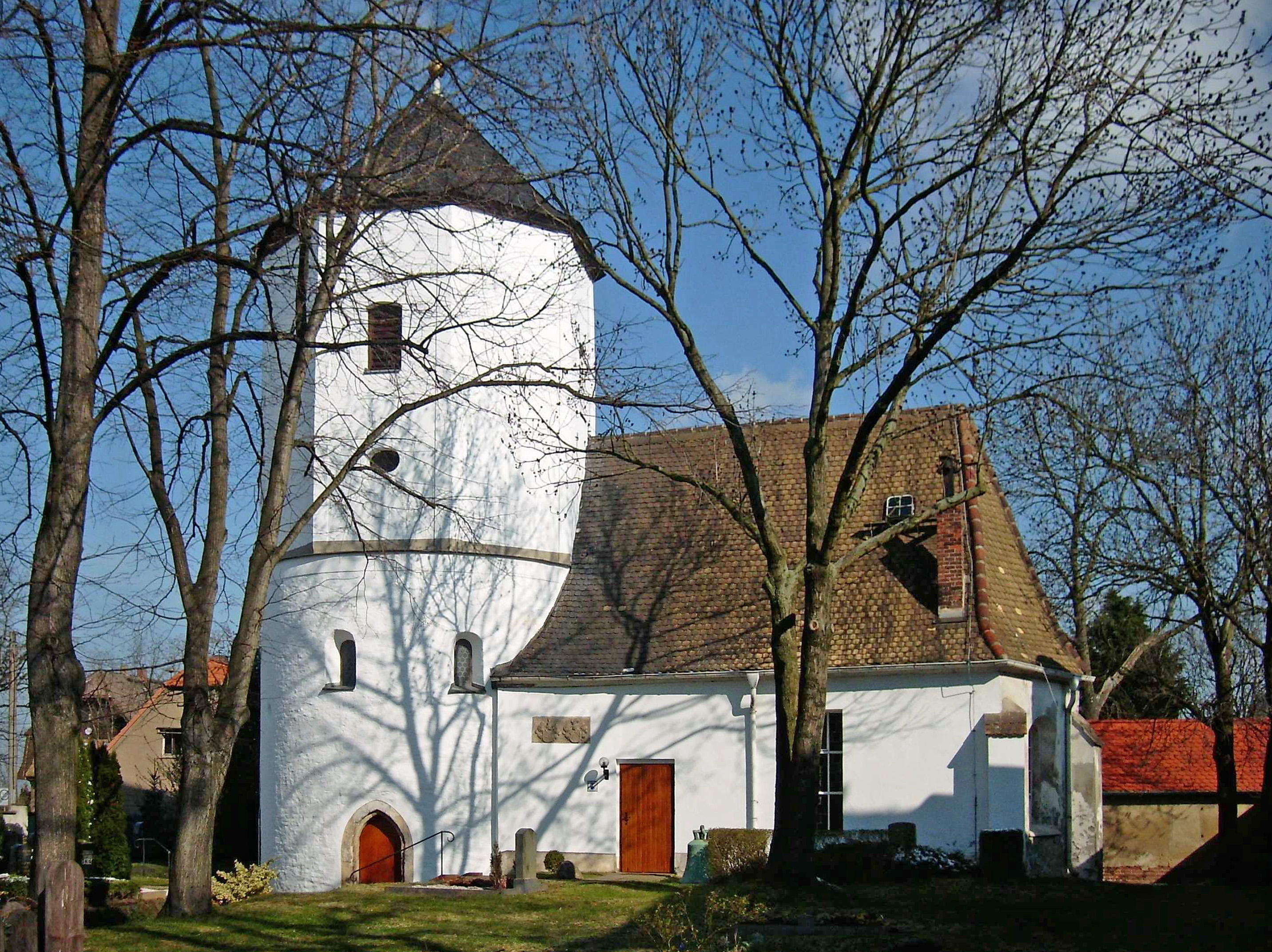 St. Andrew's Church in Knautnaundorf (Leipzig, Saxony), originally a circular chapel (about 1100), extended in the late 15th century